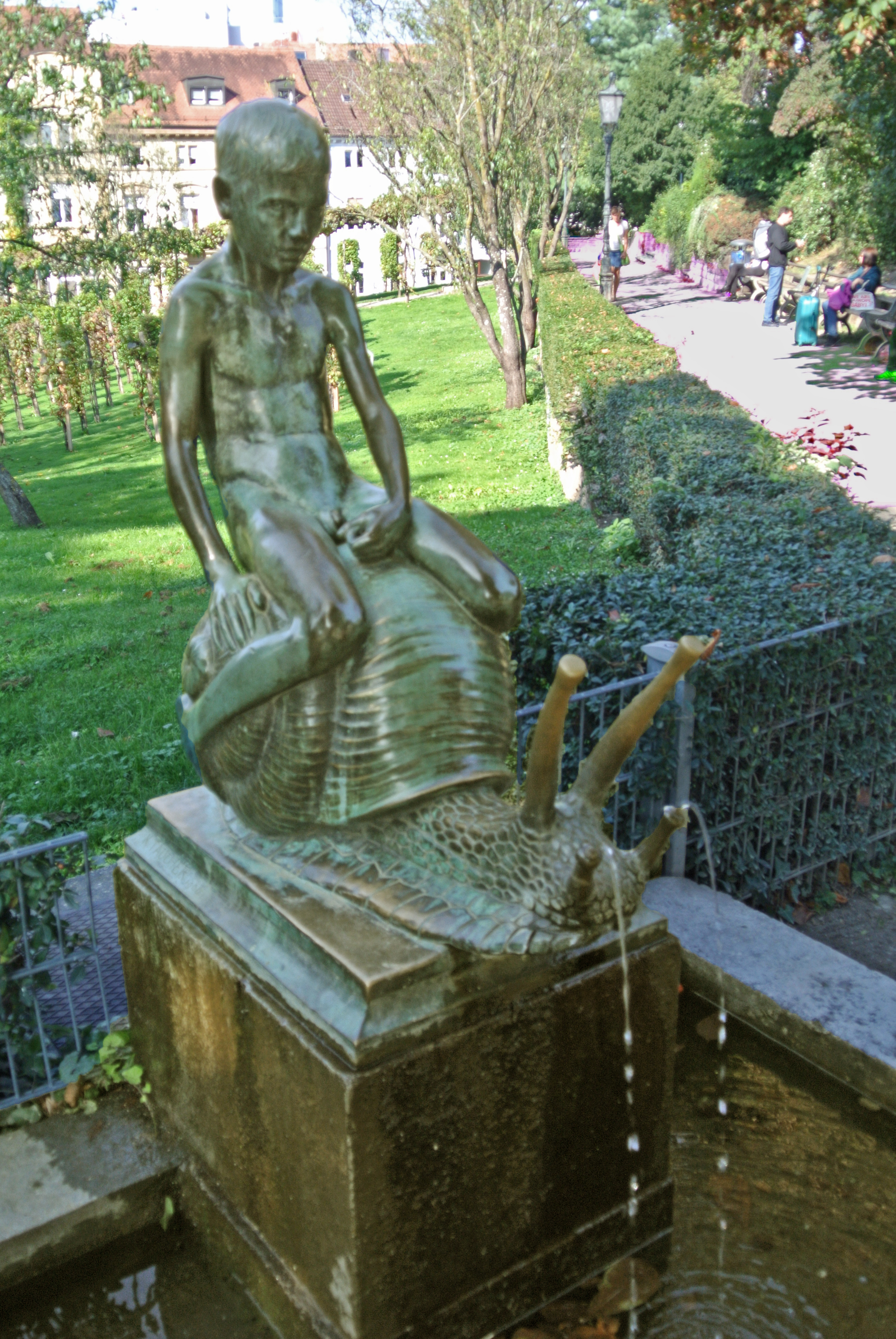 Fountain with bronze statue of a boy riding a snail (1905) by Konrad Taucher in the Colombi Park, Freiburg